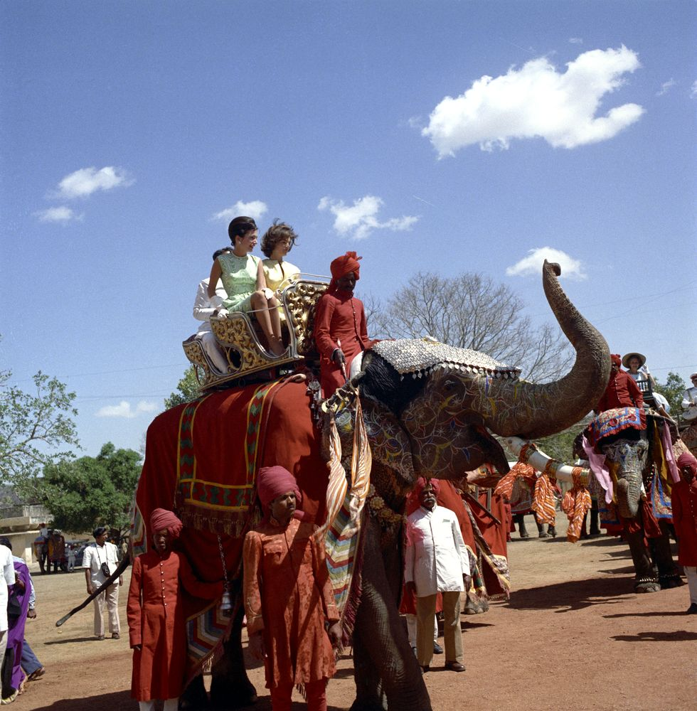 First Lady Jacqueline Kennedy (right) and her sister Princess Lee Radziwill of Poland (left) ride an elephant, Bibia, in the courtyard of Amber Palace in Jaipur, Rajasthan, India. Kitty Galbraith, wife of US Ambassador to India John Kenneth Galbraith, rides an elephant in background at right.